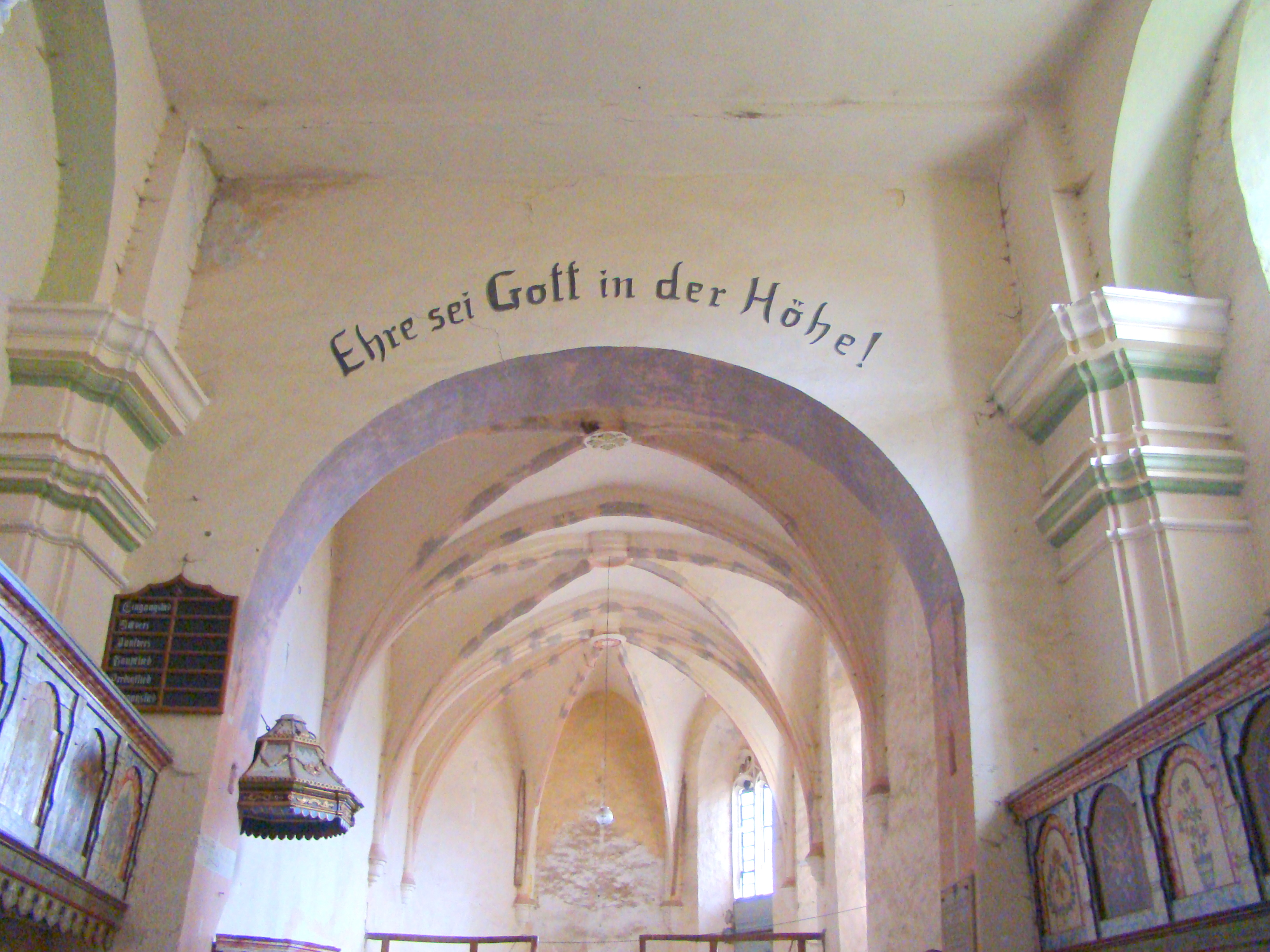 Lutheran church in Daia, Mureș county, Romania